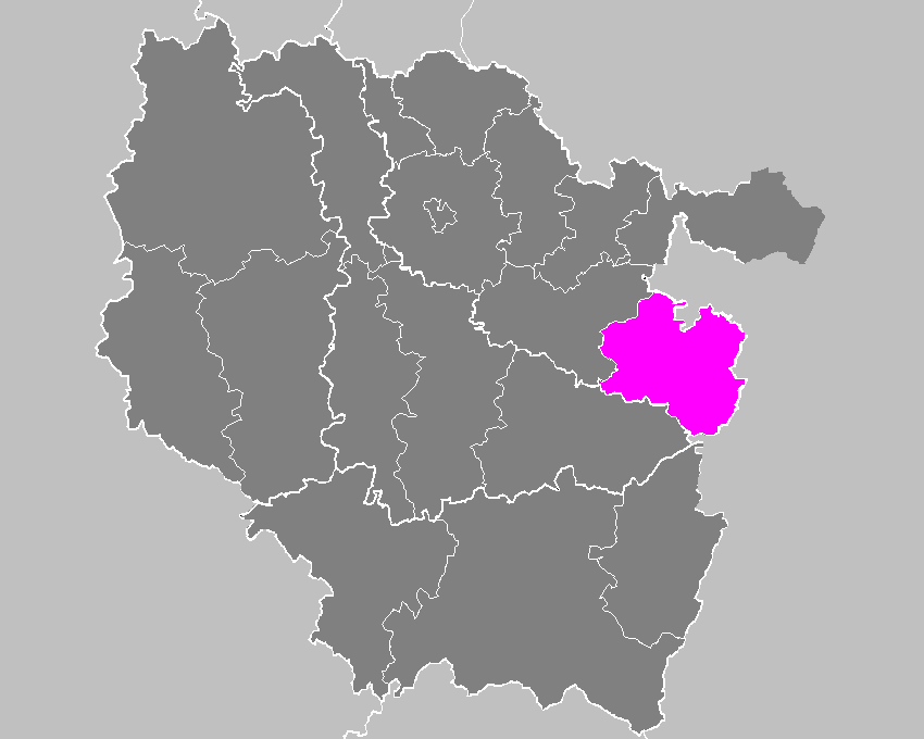 Maps of arrondissements and cantons of France: Arrondissement de Sarrebourg.PNG